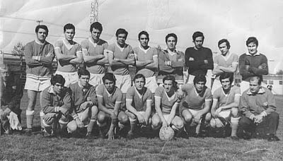 Defensores Unidos de Zárate, Primera D champion in 1969.